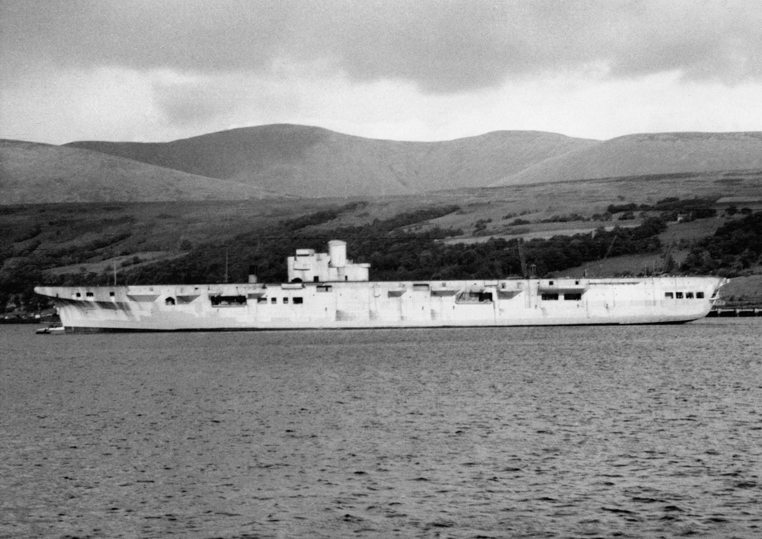 The Royal Navy Majestic-class aircraft carrier HMS Hercules (R11) moored. Her keel was laid down on 12 November 1943 by Vickers-Armstrong on the Tyne and she was launched on 22 September 1945. Completion work was carried out in Belfast but construction was suspended after the end of the Second World War and she was laid up for possible future use. In January 1957 she was sold to India, and construction was completed at Harland and Wolff with an extensively modernized design, including an angled deck with steam catapults, a modified island, and many other improvements.